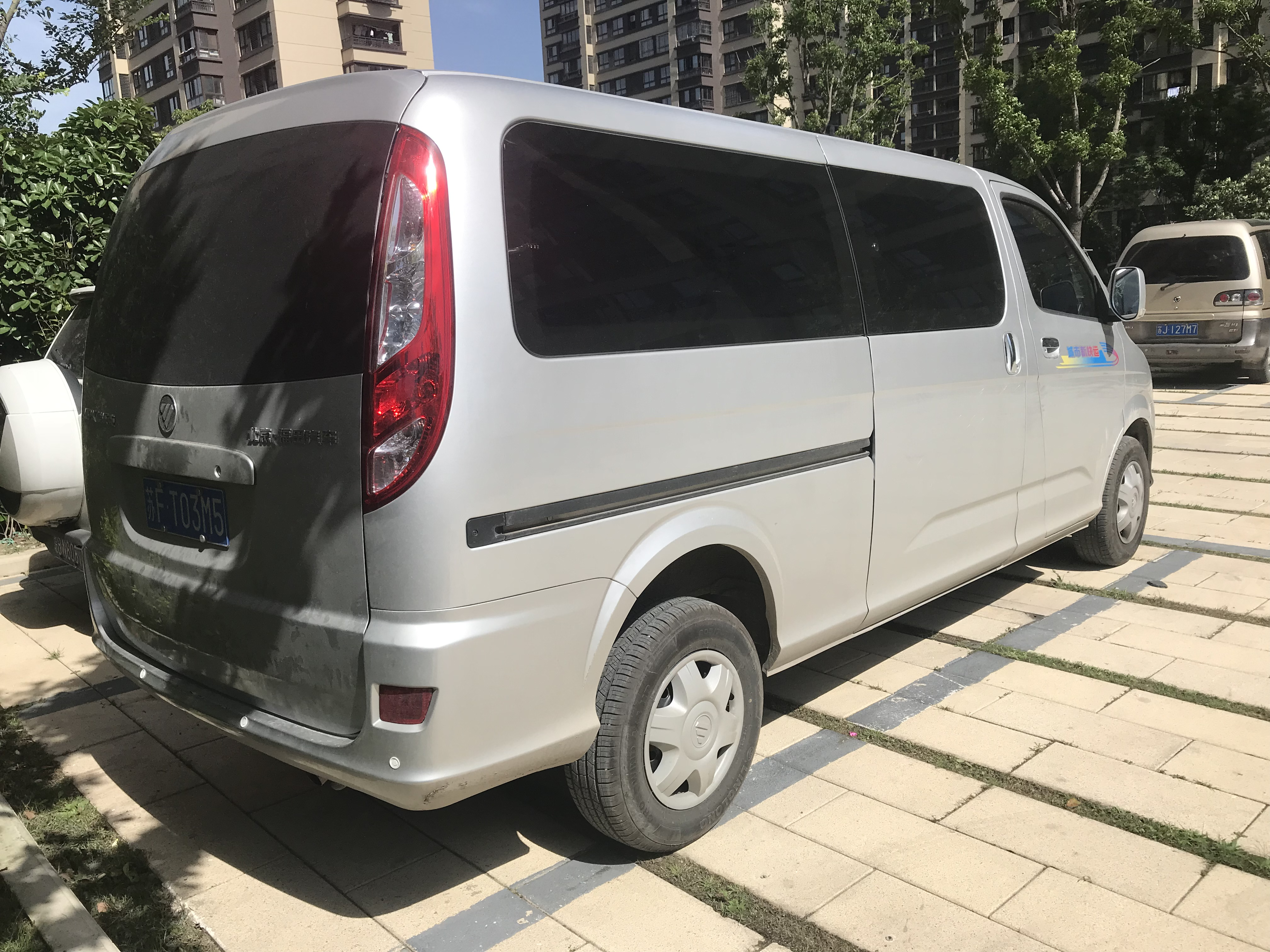 Foton MP-X